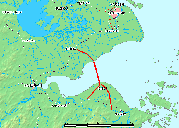 Location of the Hangzhou Bay Bridge — crossing Hangzhou Bay, east of the Qiantang River Delta. Located in Zhejiang and Ningbo Provinces, Southeast China.